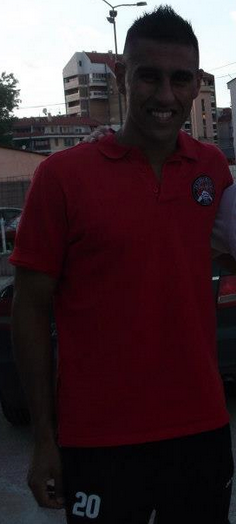 Tiago Galvao in 2013